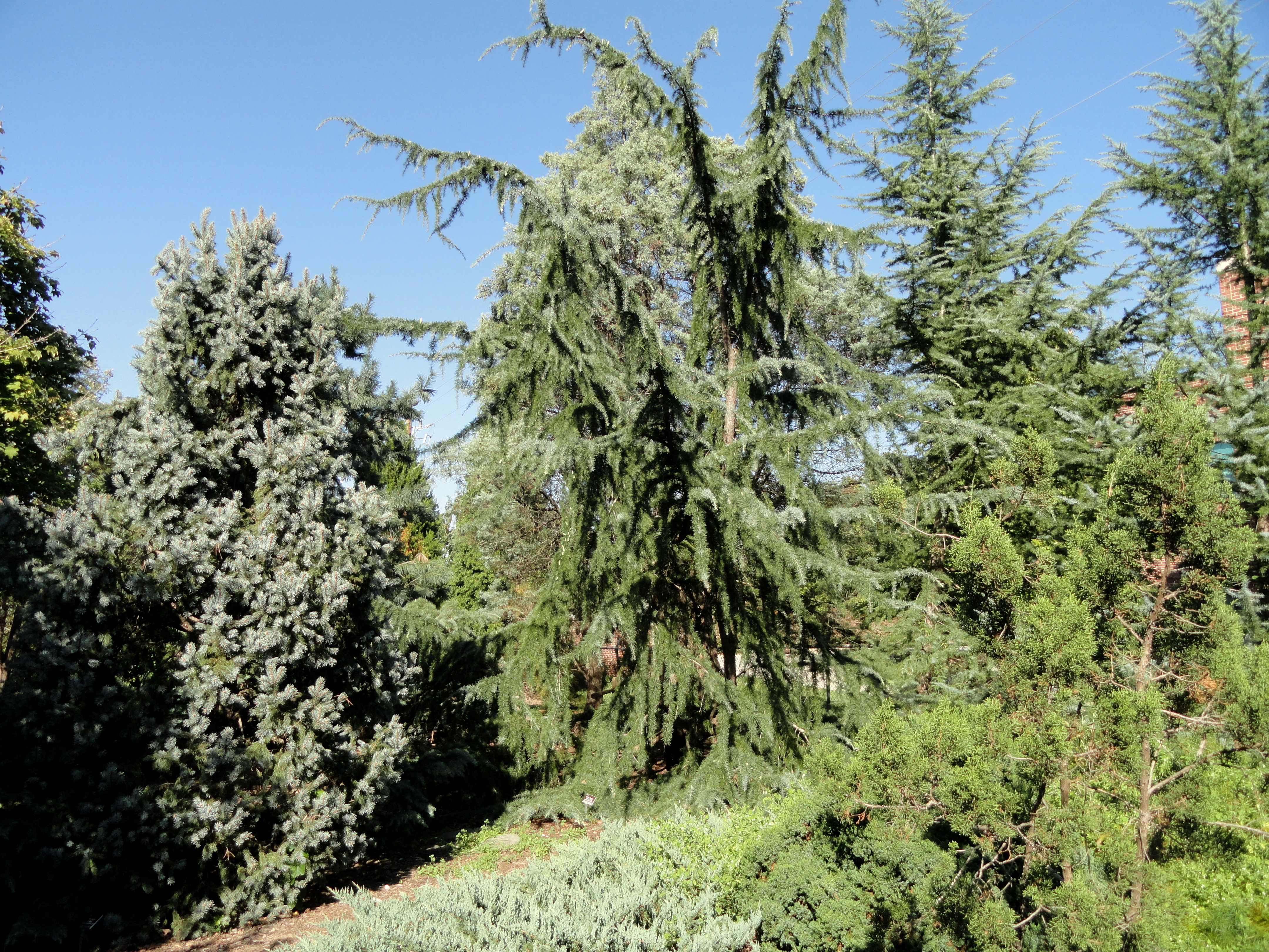 J. C. Raulston Arboretum (North Carolina State University), 4415 Beryl Road, Raleigh, North Carolina, USA.